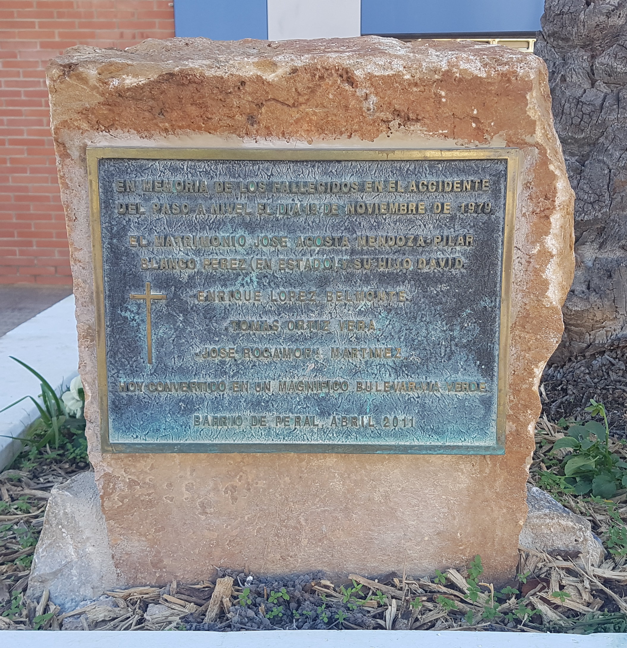 Commemorative plaque of the railway accident on November 19, 1979 in the space known as Palm of Remembrance, in Barrio de Peral of the Spanish city of Cartagena, Region of Murcia. It reads: In memory of those passed away in the level crossing accident of November 19, 1979 The married couple José Acosta Mendoza-Pilar Blanco Pérez (pregnant) and their son David Enrique López Belmonte Tomás Ortiz Vera [sic] José Rocamora Martínez Today it has become a magnificent boulevard-rail trail Barrio de Peral, April 2011